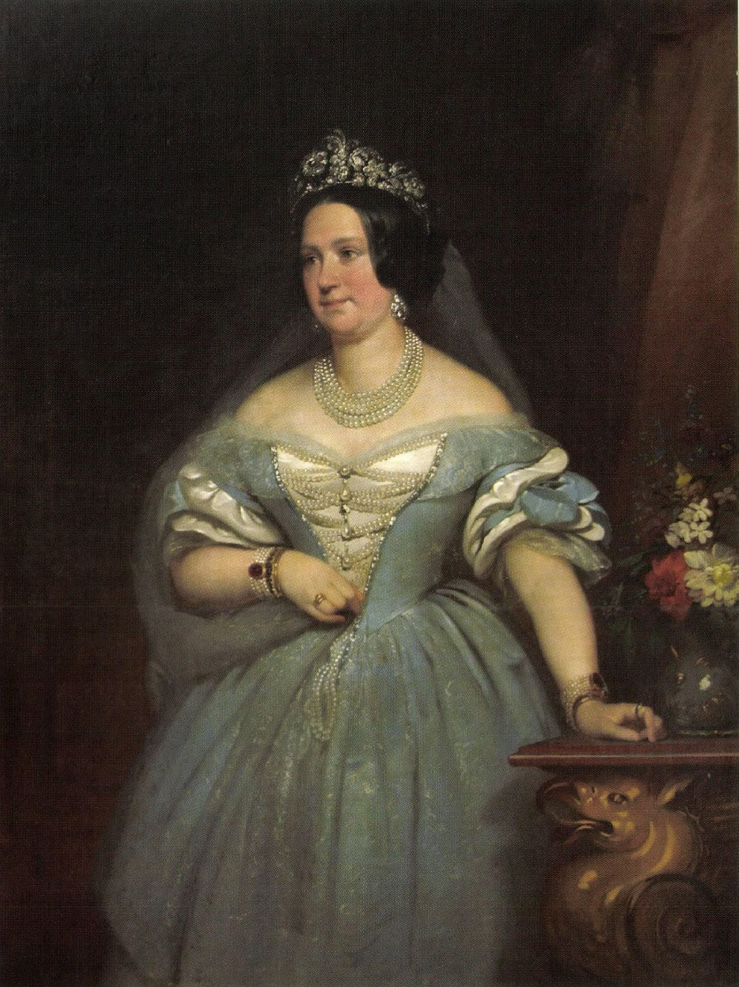 Etelka Szapáry (1798–1876): wife of Károly Andrássy (1792–1845), mother of Gyula Andrássy (1823–1890) prime minister of Hungary